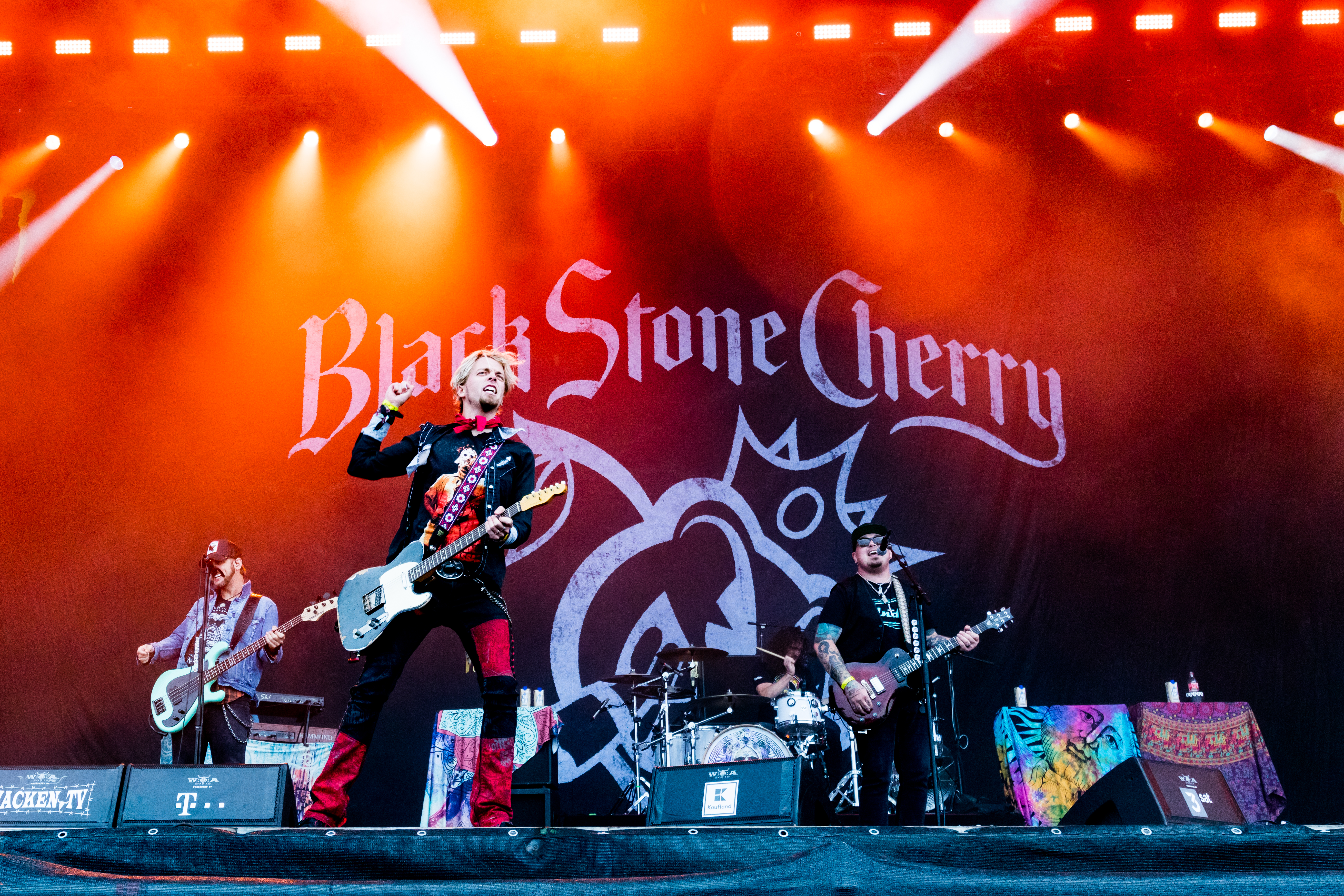 Black Stone Cherry during Wacken Open Air at The Holy Wacken Land, Wacken, Schleswig-Holstein, Germany on 2019-08-02, Photo: Sven Mandel